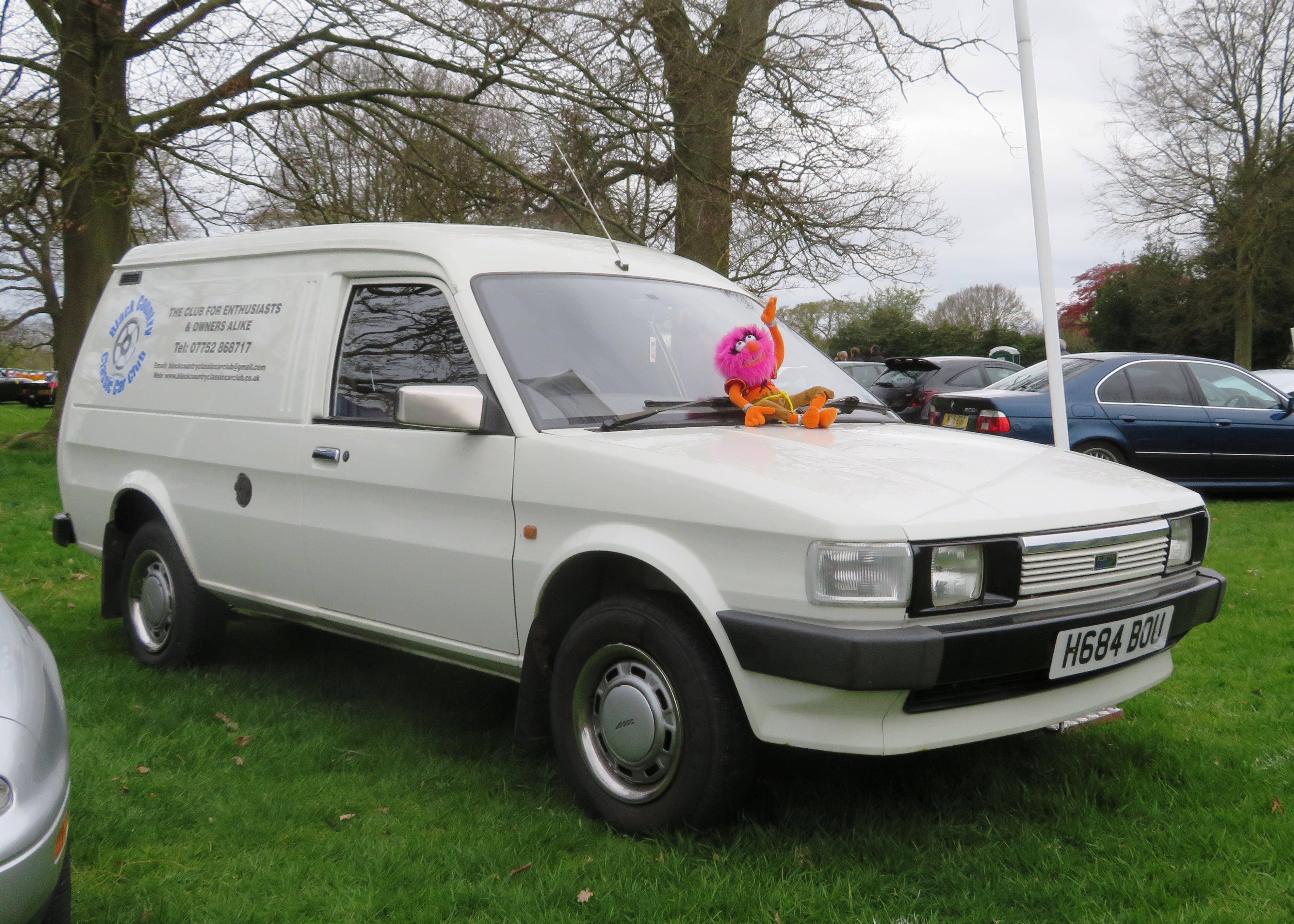 Austin Maestro Van